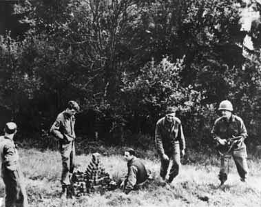 Members of the ALSOS mission uncover uranium cubes hidden by German scientists in a field in Haigerloch, Germany during the end of World War II. Left to right: James A. Lane, Carl Fiebig, Marte Previti, Harold Brown, Walter A. Parish